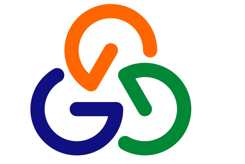 Flag of Nomi Ishikawa